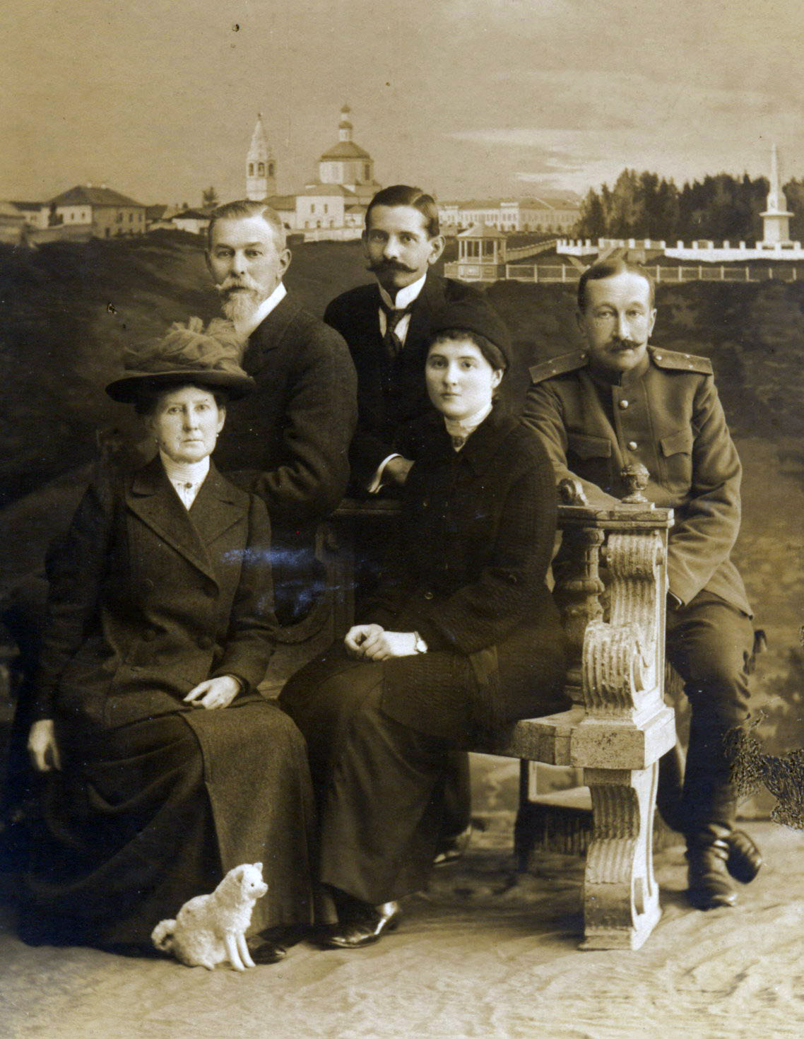 Catherine Schneider, Count Ilya Tatishchev, Pierre Gilliard, Countess Anastasia Hendrikova, Prince Vasily Dolgorukov. Original Russian description mistook Gilliard for Charles Sydney Gibbes.